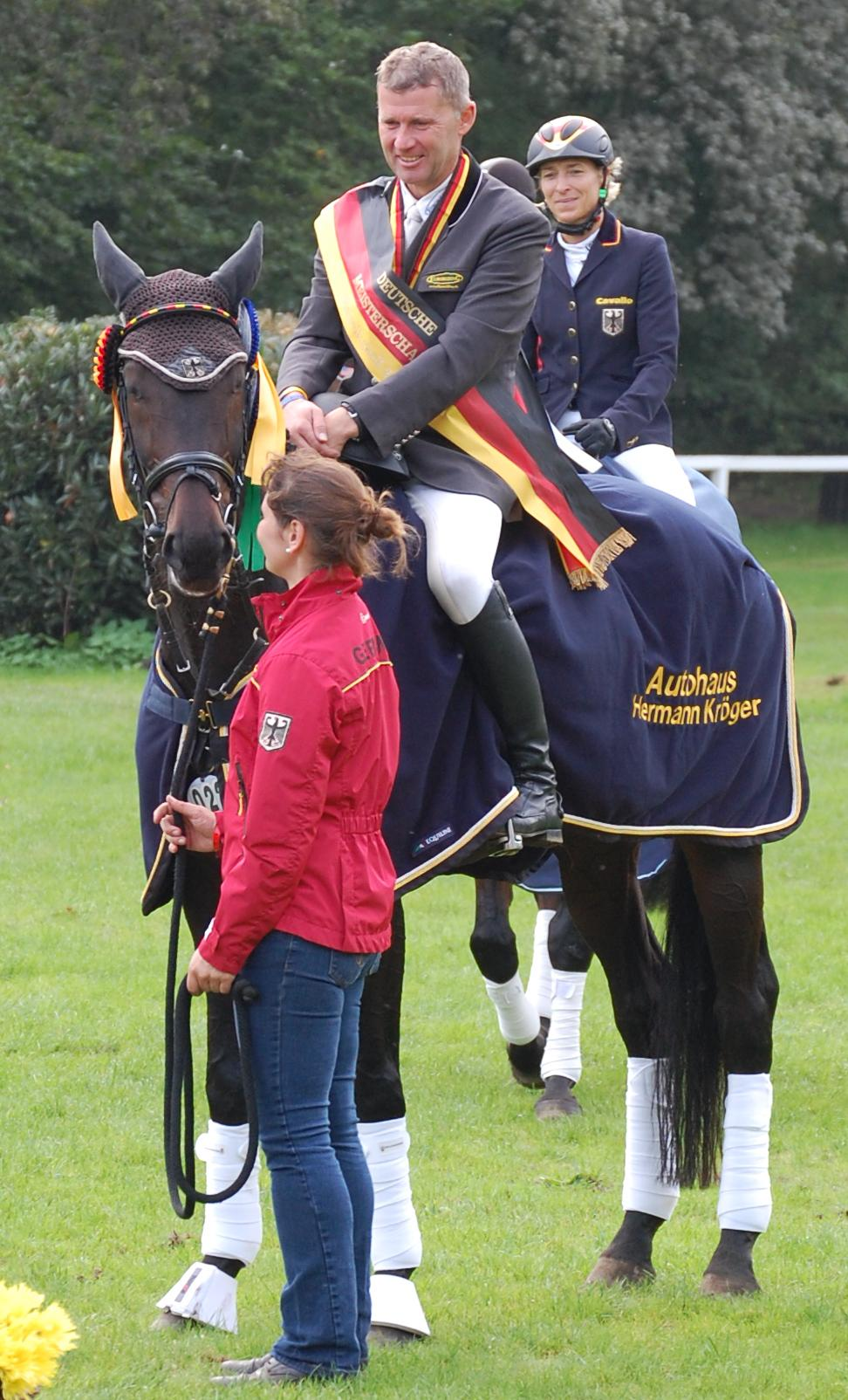 Andreas Dibowski, 2013 German Eventing Champion with FRH Butts Leon